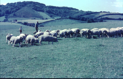 Looking west to Lewesdon Hill from Leweston Farm.